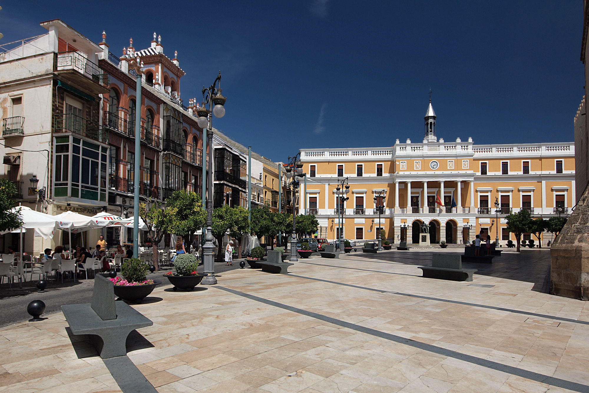 Badajoz, Plaza de España; Alvarez Buiza building and Palacio Municipal